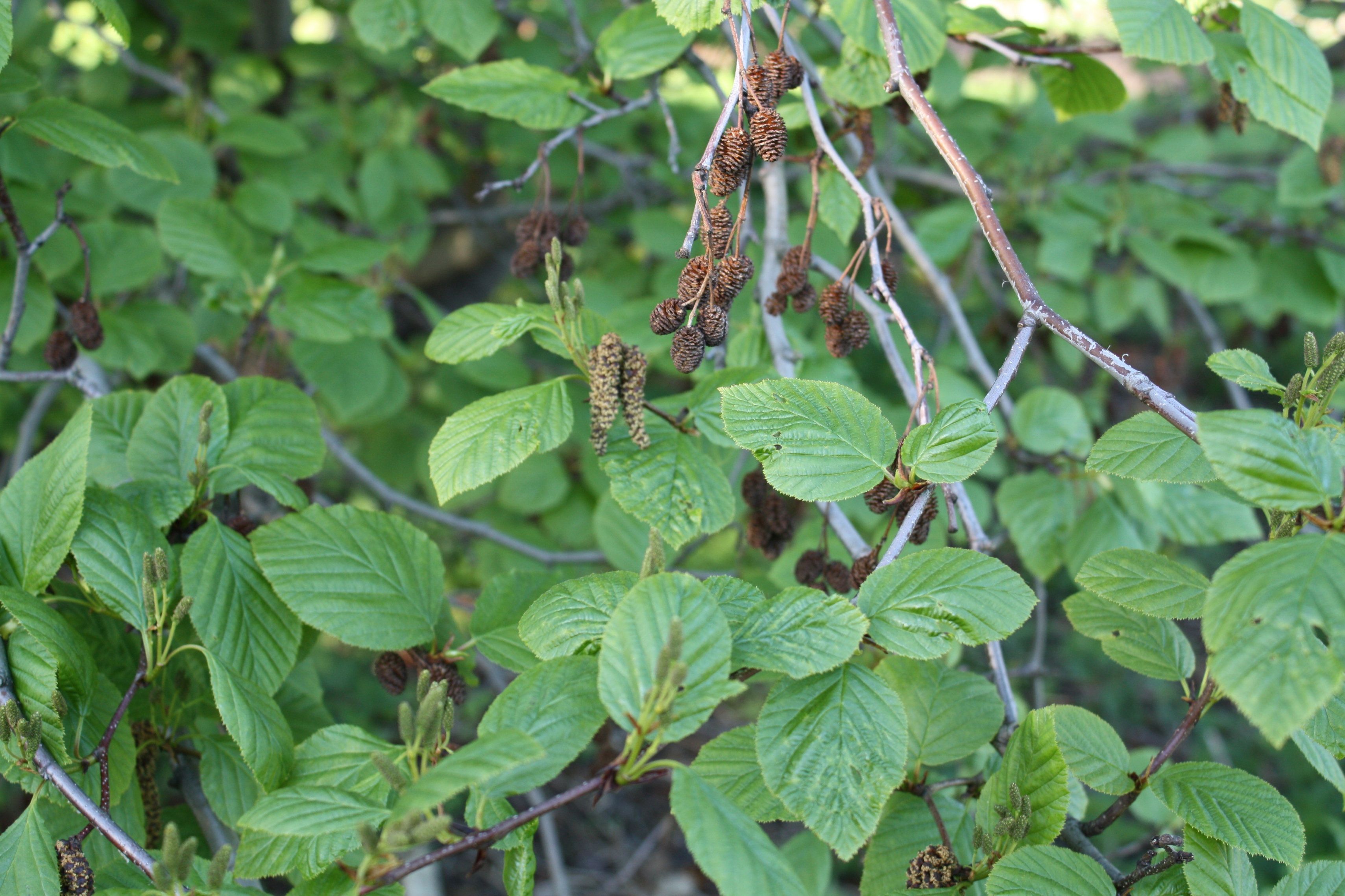 Alnus mandshurica can be seen in Meilahti Arboretum in Helsinki, Finland.